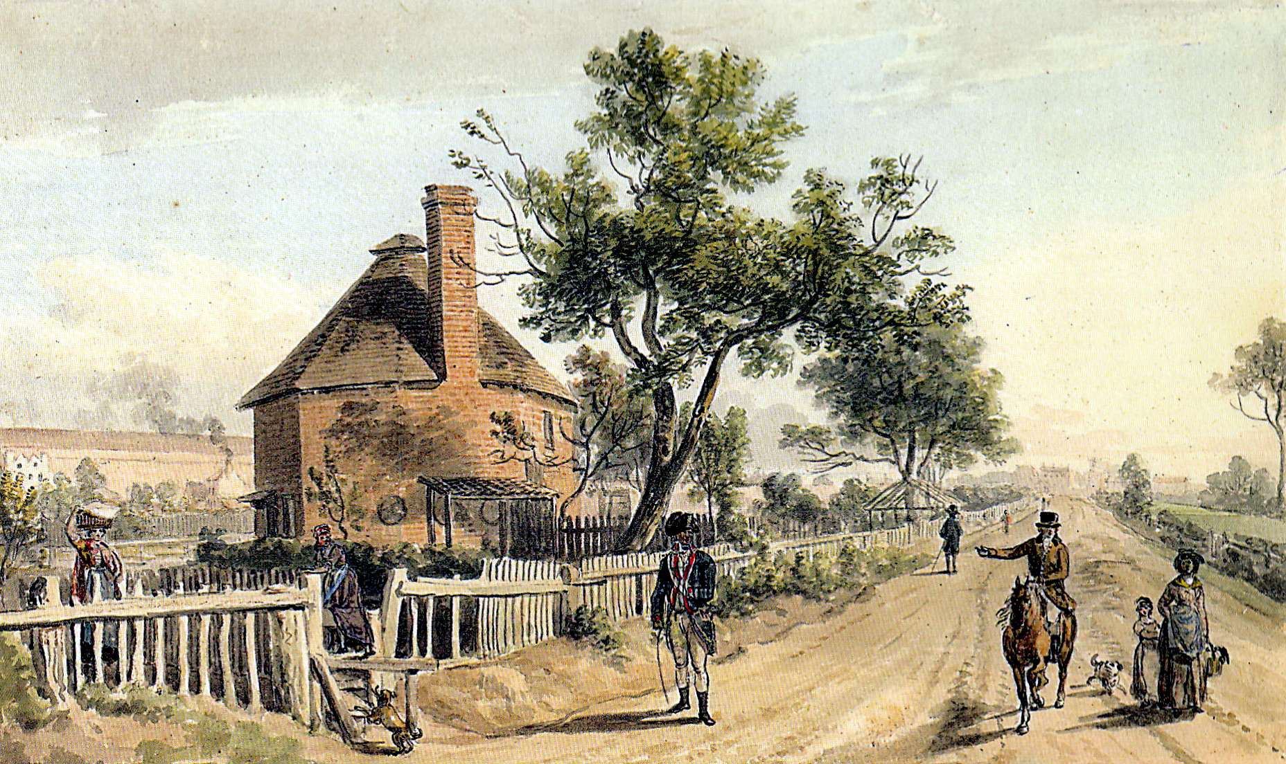 View of rural Woolwich from the west. The road depicted is now Powis Street. To the left: the Rope Yard. At the end of the road is a cluster of cottages around Green's End. The octagonal brick building was demolished in 1853. Watercolour by local artist Paul Sandby, c. 1783.